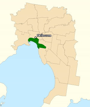 Incorporates or developed using Administrative Boundaries ©PSMA Australia Limited licensed by the Commonwealth of Australia under Creative Commons Attribution 4.0 International licence (CC BY 4.0). Derived from State and Territory Boundaries from the Australian Bureau of Statistics under Creative Commons Attribution 2.5 Australia license (CC BY 2.5 AU)